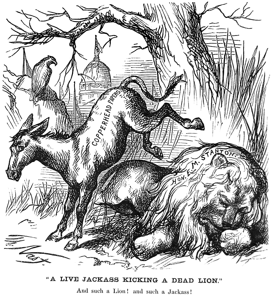 Nast cartoon of Democratic donkey, from "Harper's Weekly", January 19th 1870. Rearing donkey labelled "Copperhead Papers" kicks lion labelled "Hon. E.M. Stanton". Caption: "A Live Jackass Kicking a Dead Lion. And such a Lion! and such a Jackass!" There's a possible scriptural allusion to Ecclesiastes 9:4 -- "a living dog is better than a dead lion" (KJV)